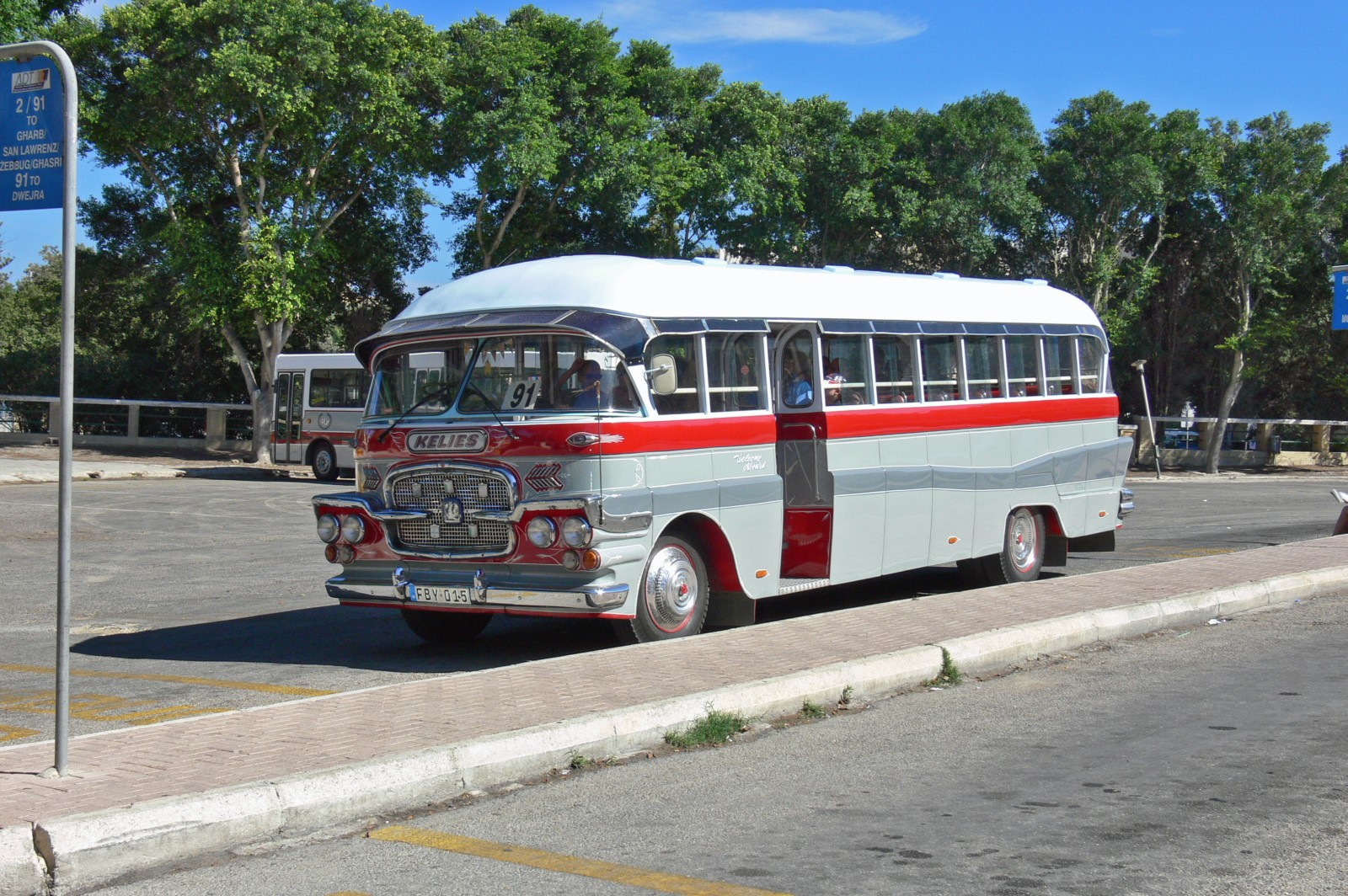 Bus on Gozo